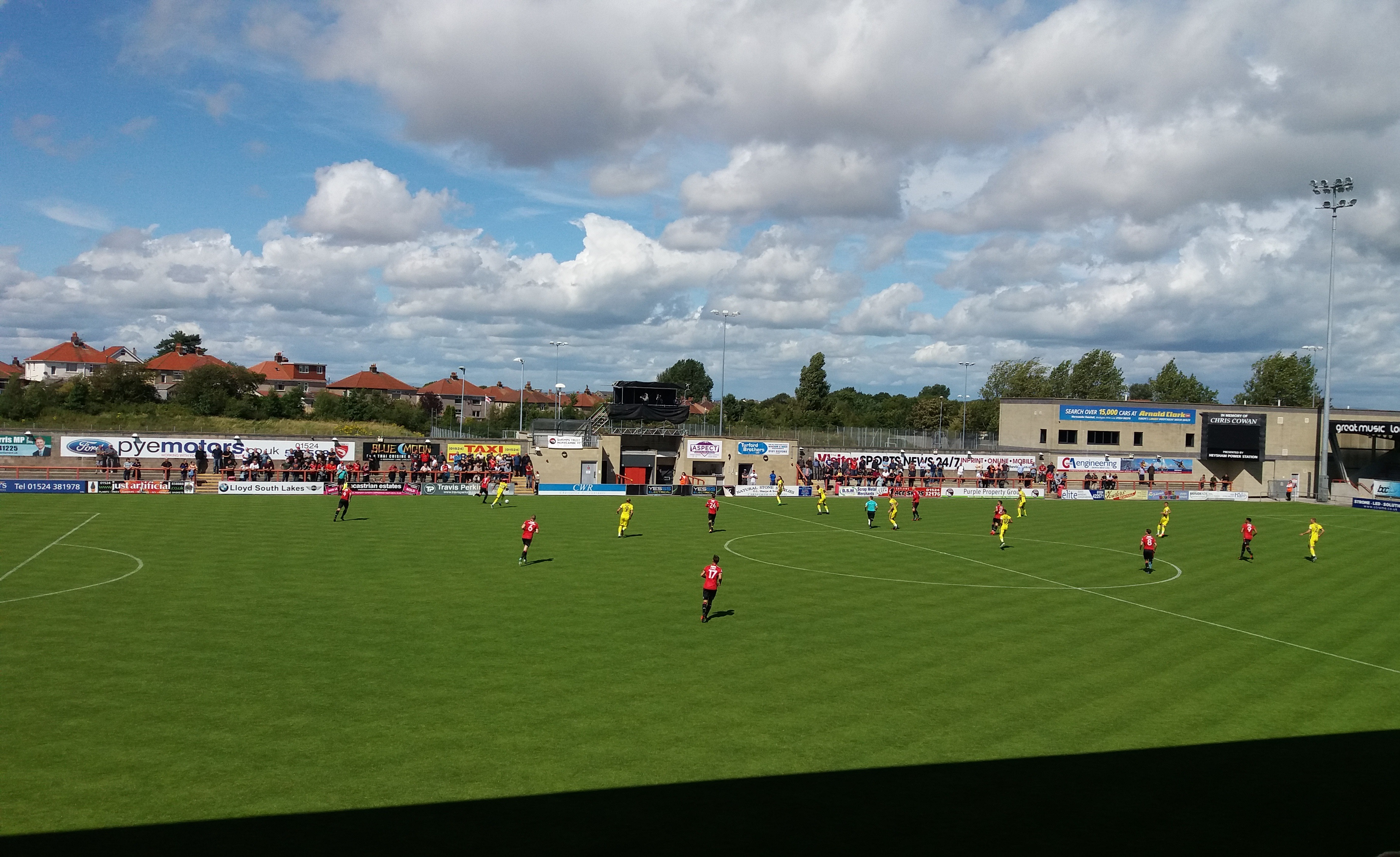 Globe Arena open terrace